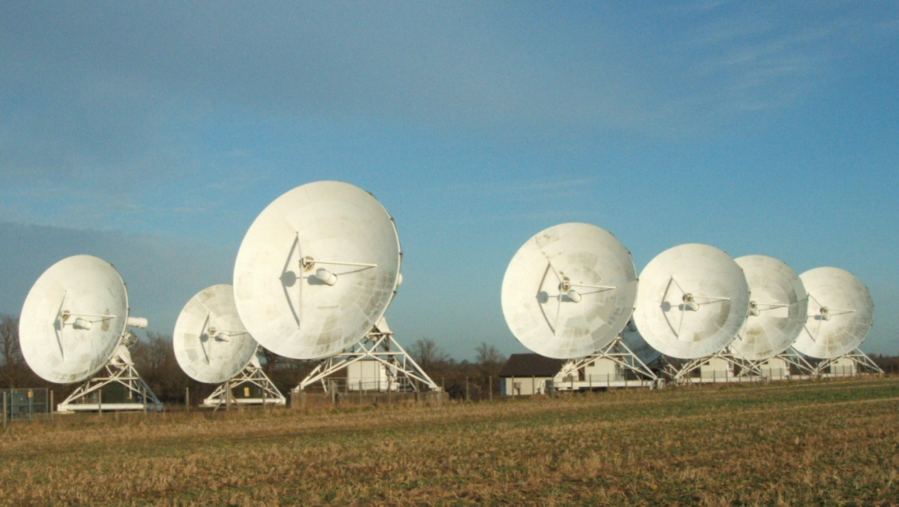 The photograph shows the Arcminute Microkelvin Imager Large Array, an aperture synthesis radio telescope, located at the Mullard Radio Astronomy Observatory near Cambridge, U.K.